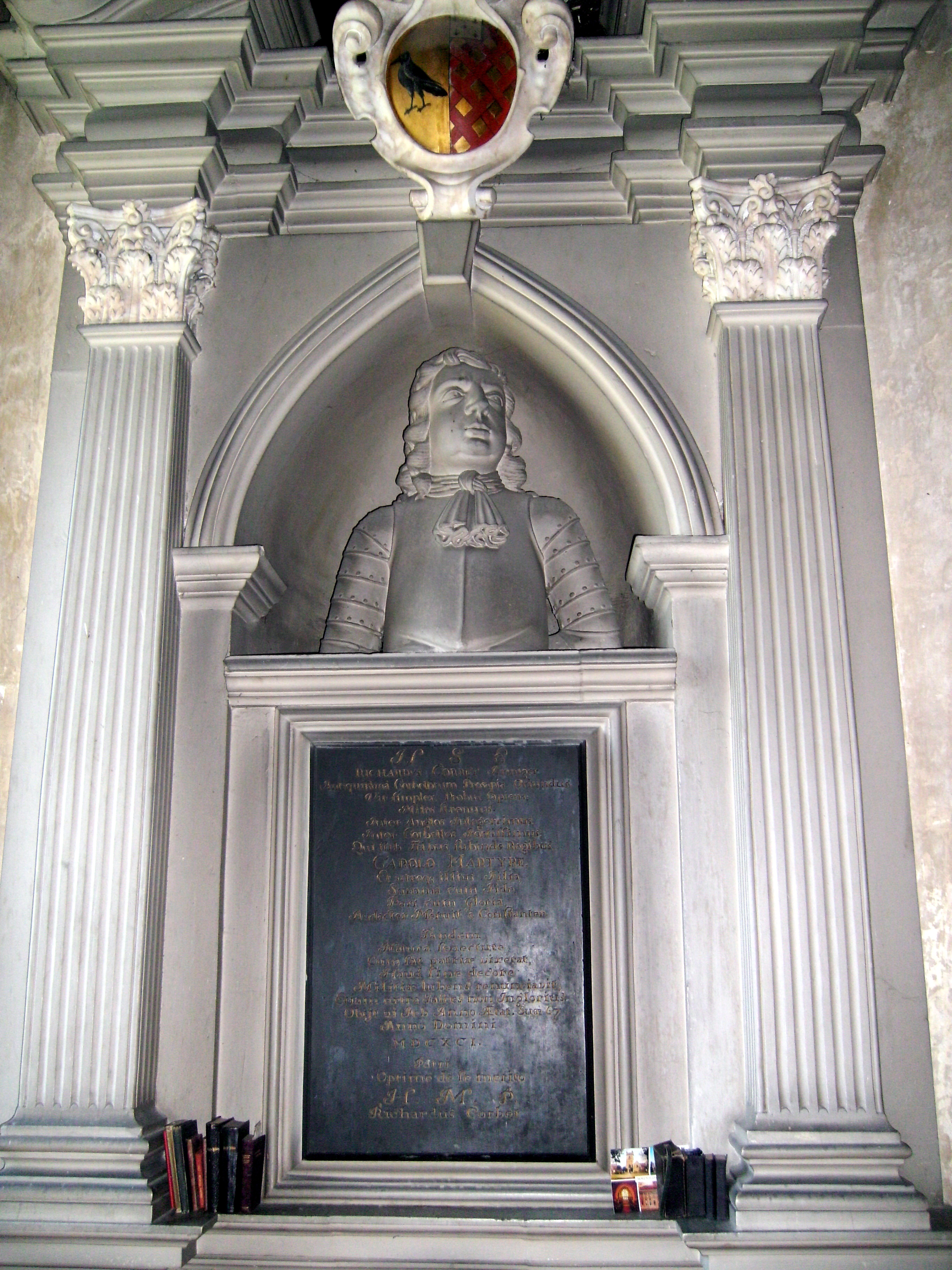 Church of St Bartholomew, Moreton Corbet, Shropshire. Monument to Richard Corbet (died 1691), brother of the first baronet, a distinguished royalist soldier of the English Civil War. He married Catherine Noel, a daughter of William Noel (d.1641) of Kirkby Mallory, Sheriff of Leics in 1604, Sheriff of Warks in 1621, father of Sir Verney Noel, 1st Baronet (died 1670)(A Genealogical and Heraldic History of the Extinct and Dormant Baronetcies, By John Burke, Bernard Burke[1])